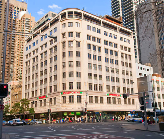 Woolworths, Sydney (image has been altered for cropping and straightening, 2014-5-7, by User:Sardaka)